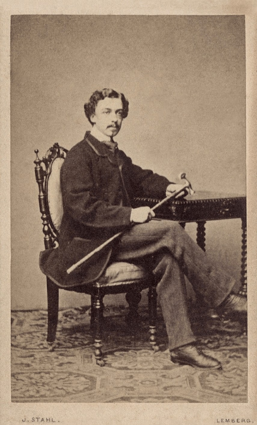 Juliusz Tarnowski (1840-1863) - photo in Lviv in 1863 by Ignatius Stahl (-1892)